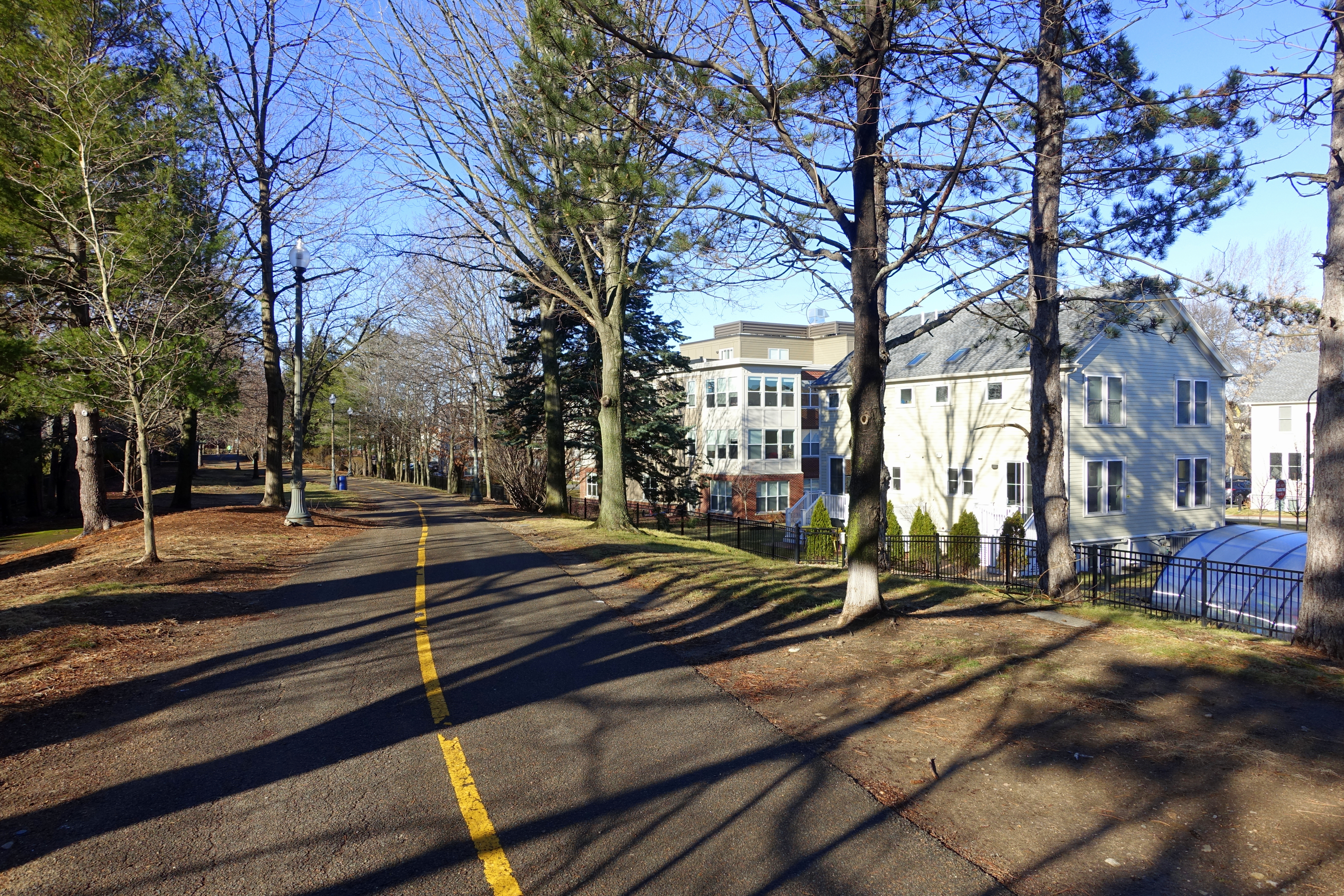 Alewife Linear Park - Cambridge, Massachusetts, USA.